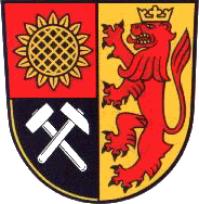 Coat of arms of Löbichau